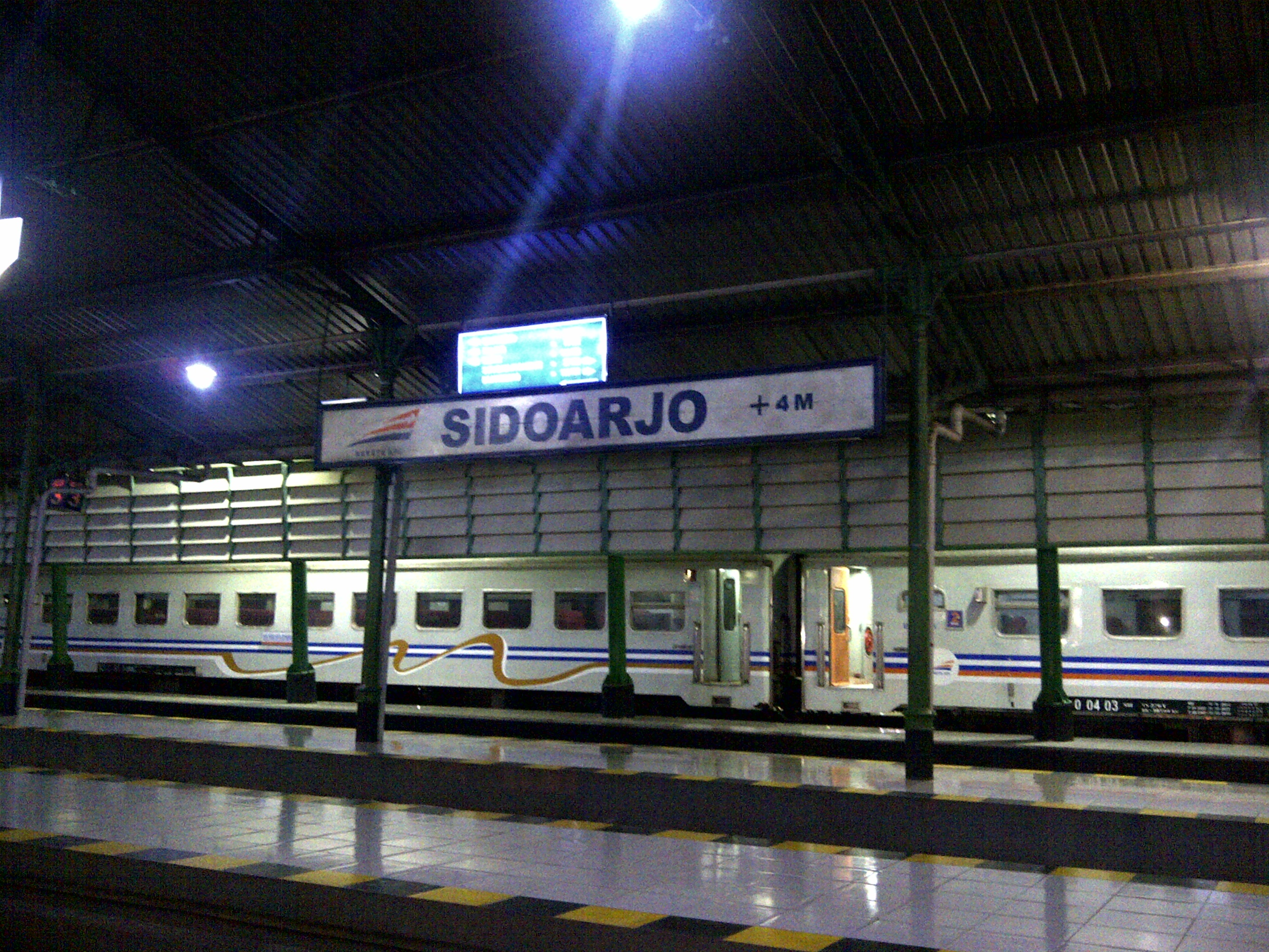 The inside of Stasiun Sidoarjo (Abb. SDA) at night showing the station platforms and also features the K3 carriages (Ekonomi AC) of the KRD Bojonegoro train awaiting for departure to Surabaya-Gubeng.